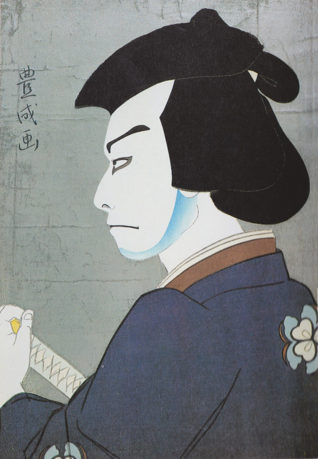 Portrait of Nakamura Kichisaemon 1st as Hoshikage Doemon in the scene Gojō-zaka Nakanochō of the play Soga moyō tateshi no gosho-zome